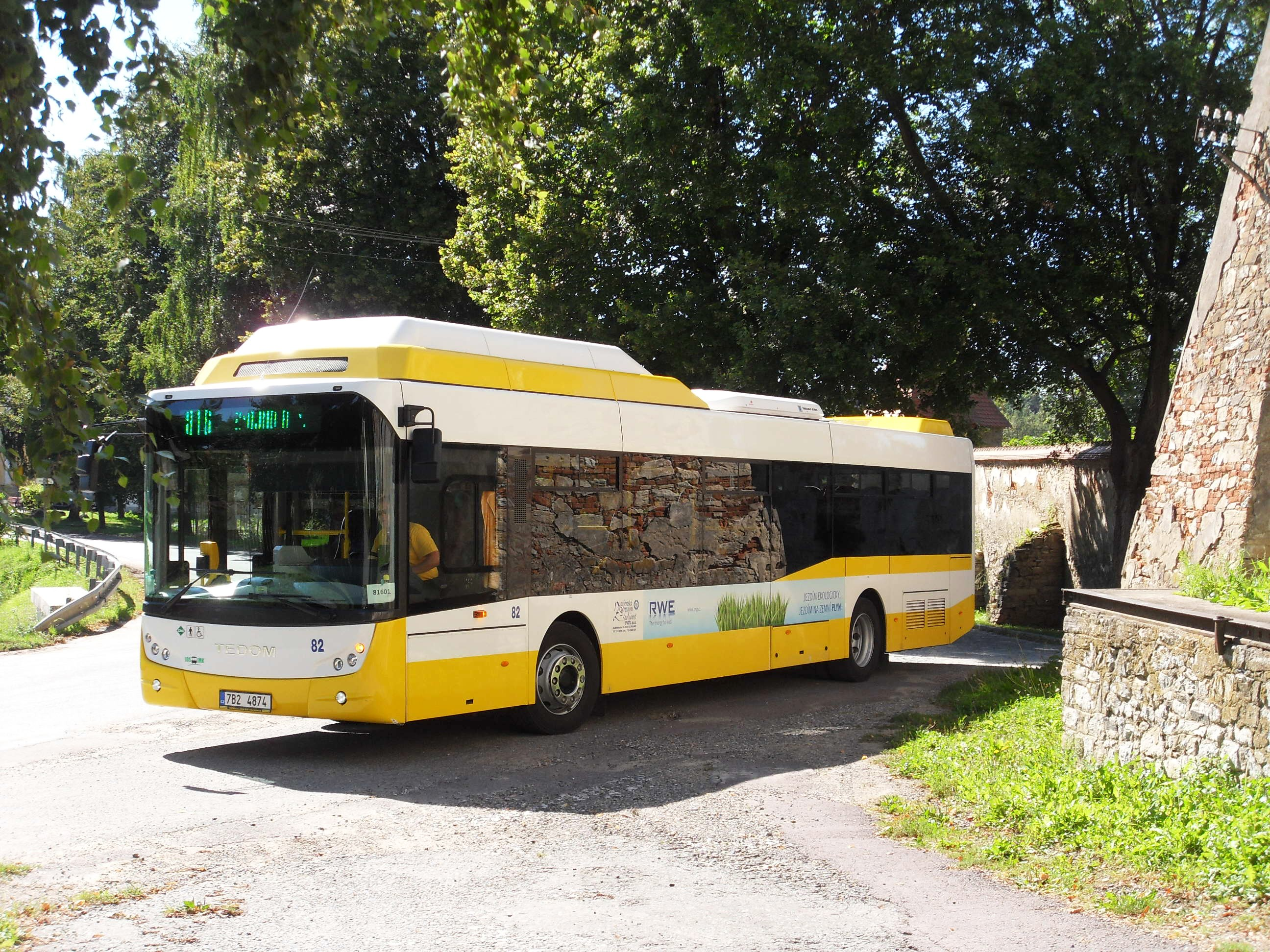 TEDOM L 12 G bus No. 82 of ZDS - Psota, Uherčice, Znojmo district, Czech Republic